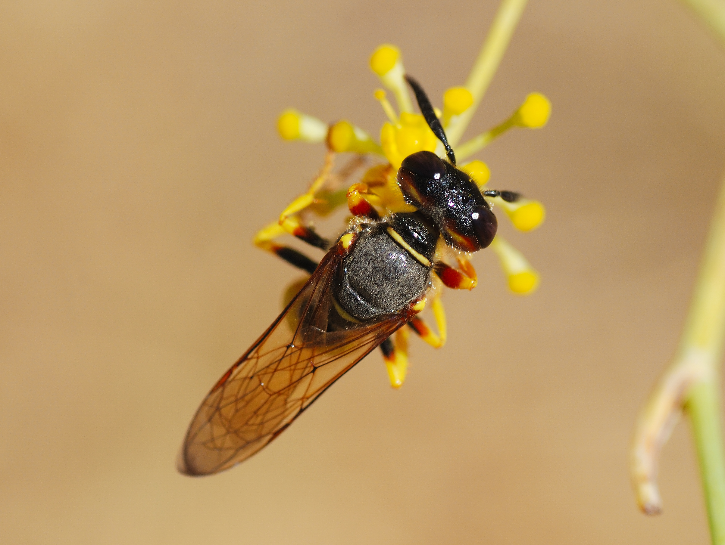 European beewolf (Philanthus triangulum), a solitary digger wasp